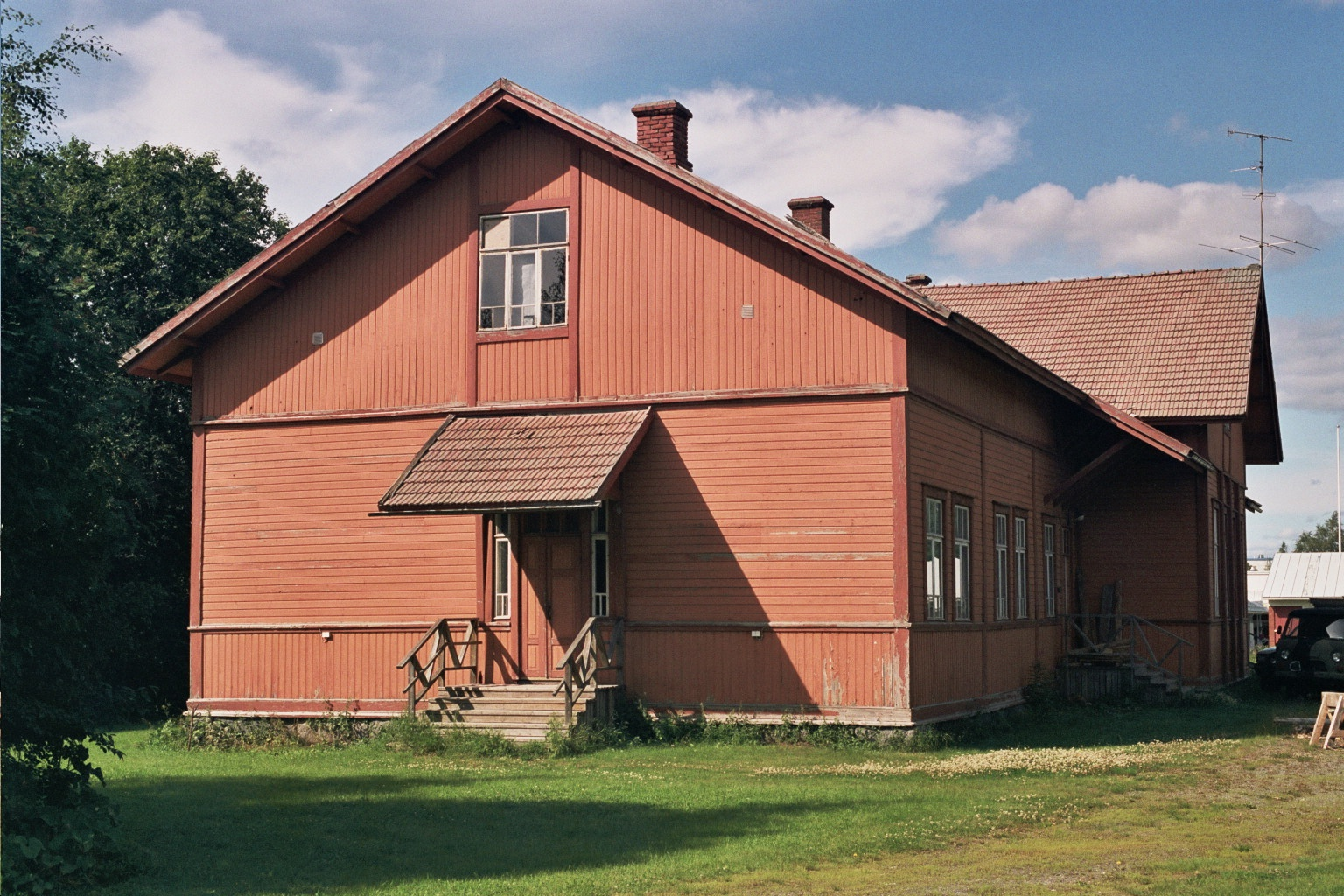 The old school building in the Kiviranta district of Tornio, Finland. It's no longer in its original use.